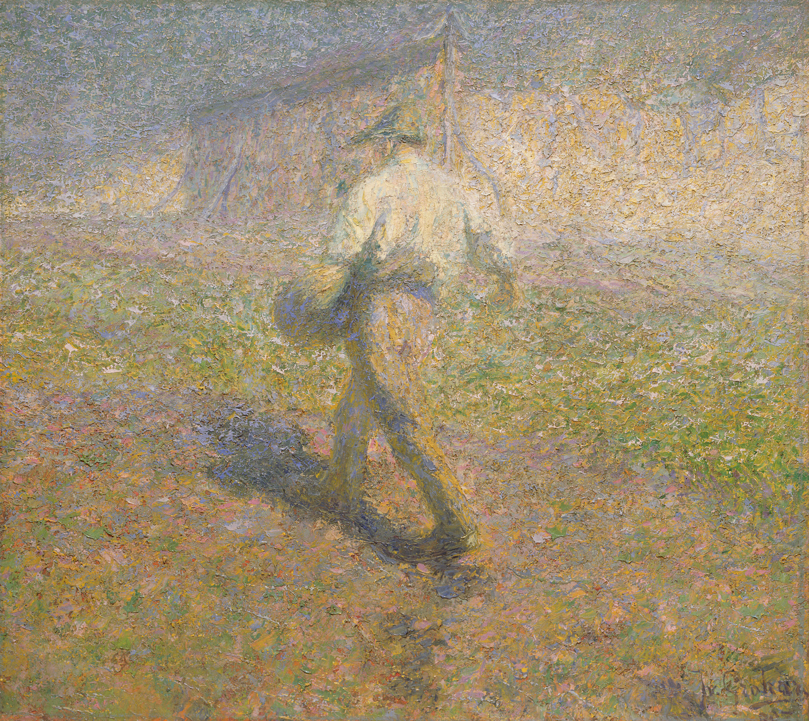 Impressionist painting. A man walks in a field and throws seed. In the background, a hayrack and Kamnitnik Hill at Škofja Loka (northwestern Slovenia) are visible.